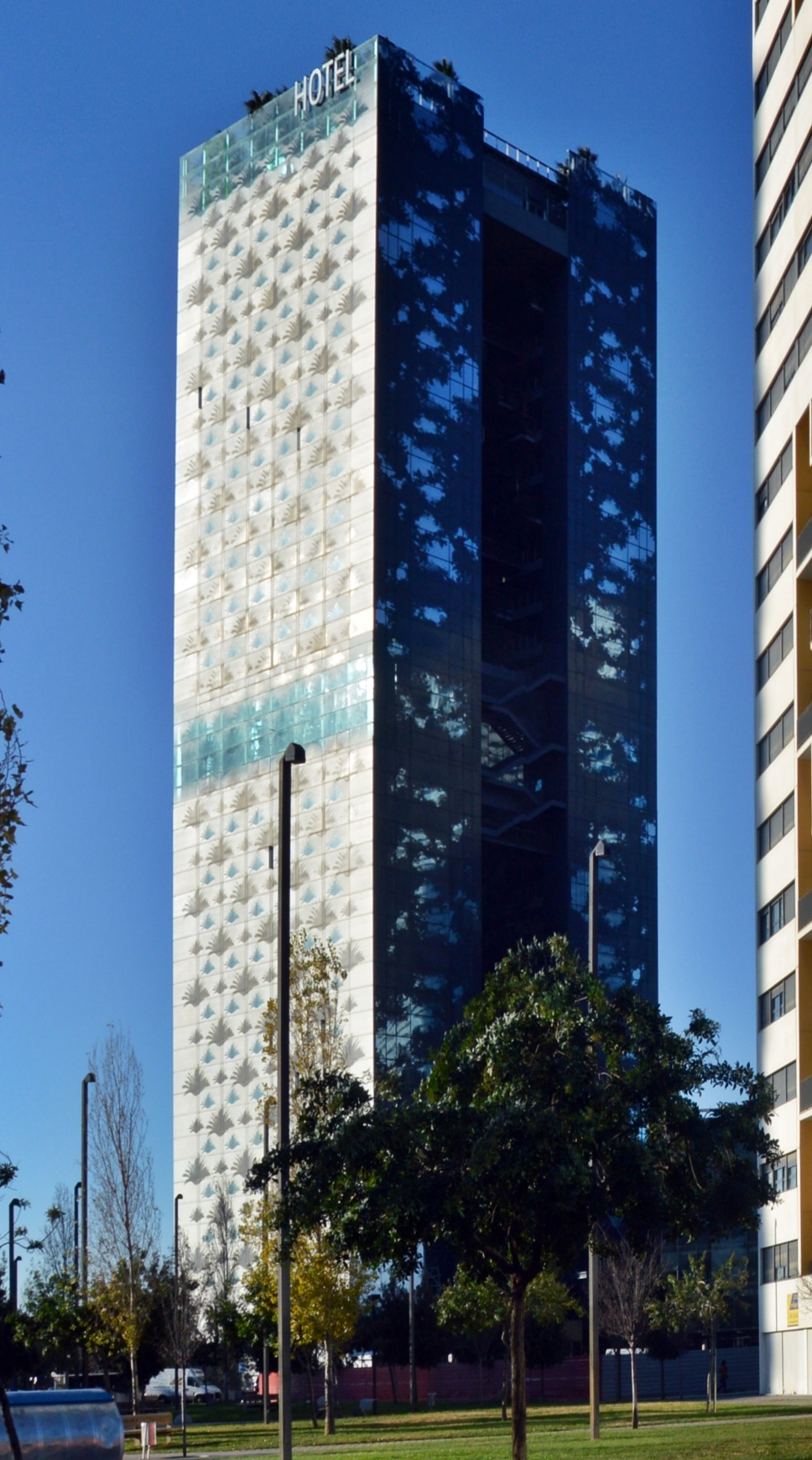 Hotel Catalonia